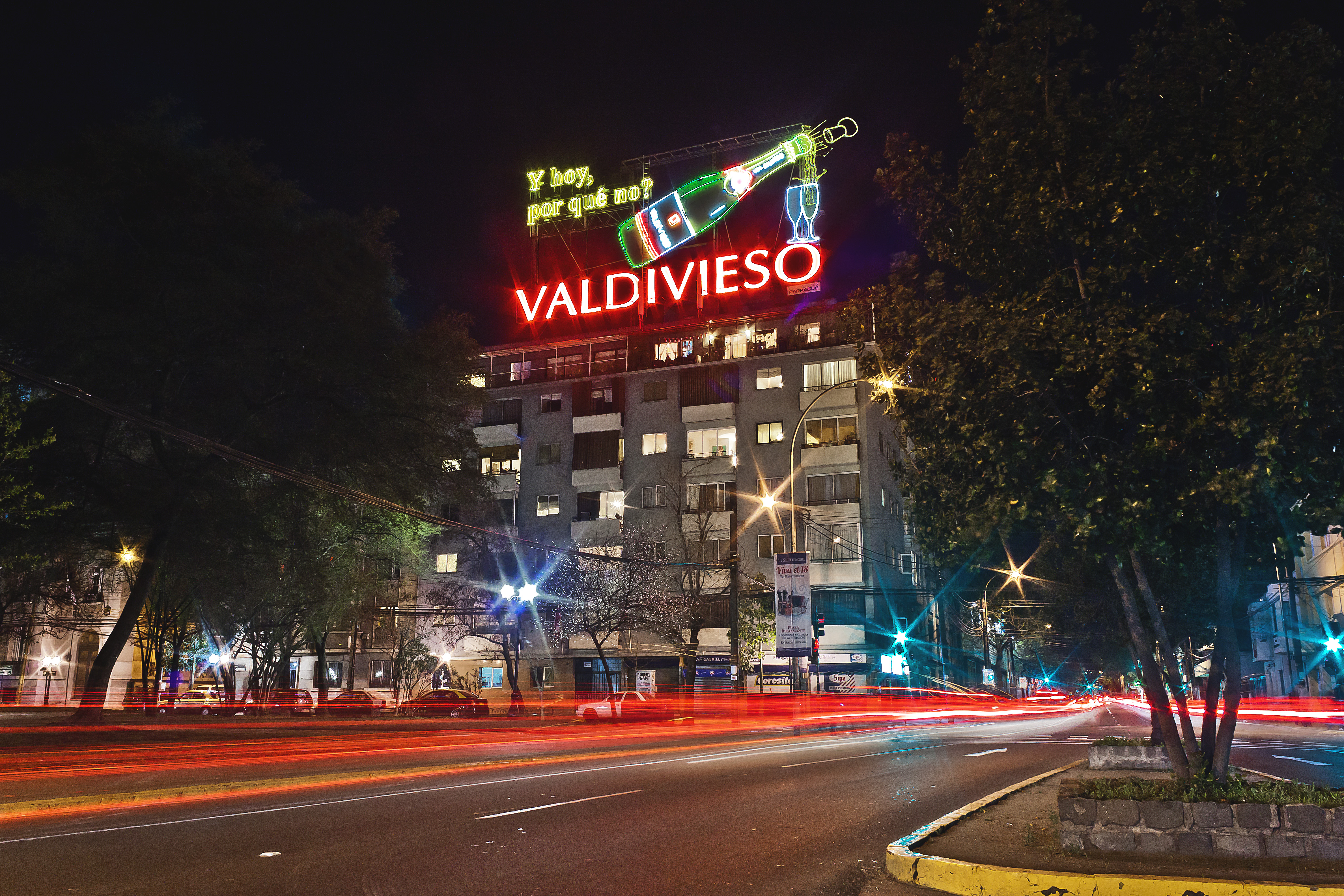 This neon sign (and another sign one block away) was recently declared National Monument by president Sebastián Piñera in May 2010. This sign is a truthful representative of 1950's Chilean advertising. The sign is one of the first "commercial items" to be declared National Monuments in Chile. This is a photo of a national monument in Chile: 2169